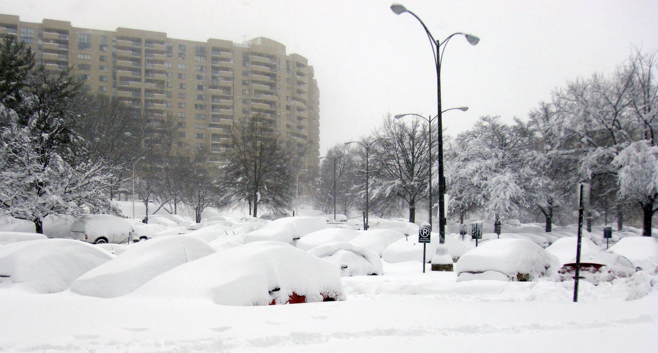 Parking lot at Pentagon City, Arlington, Virgina, near the end of the North American Blizzard of February, 2010